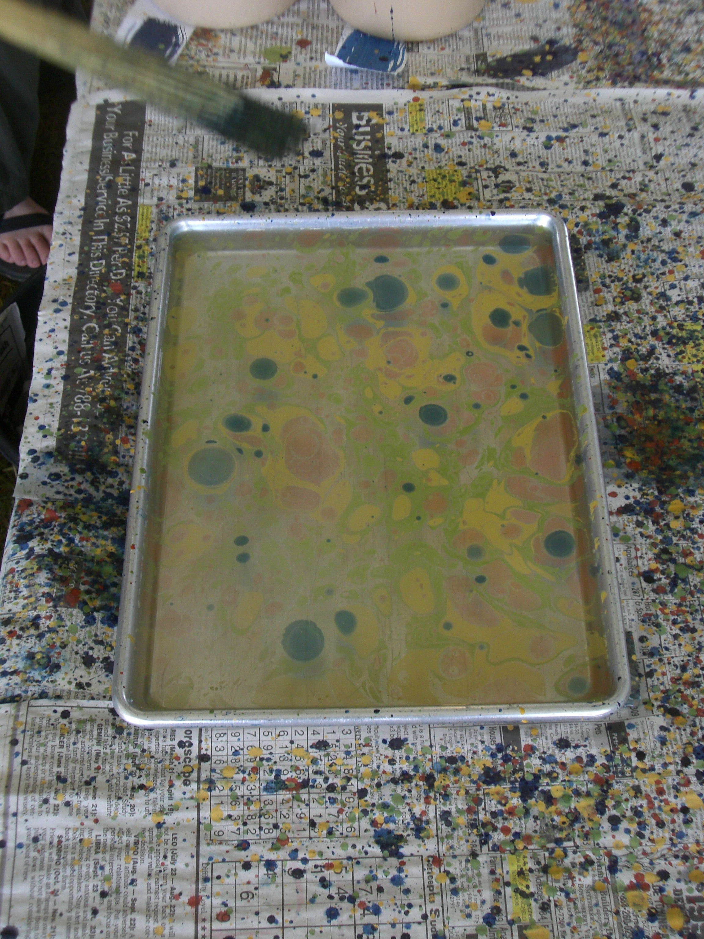 Tools for paper marbling